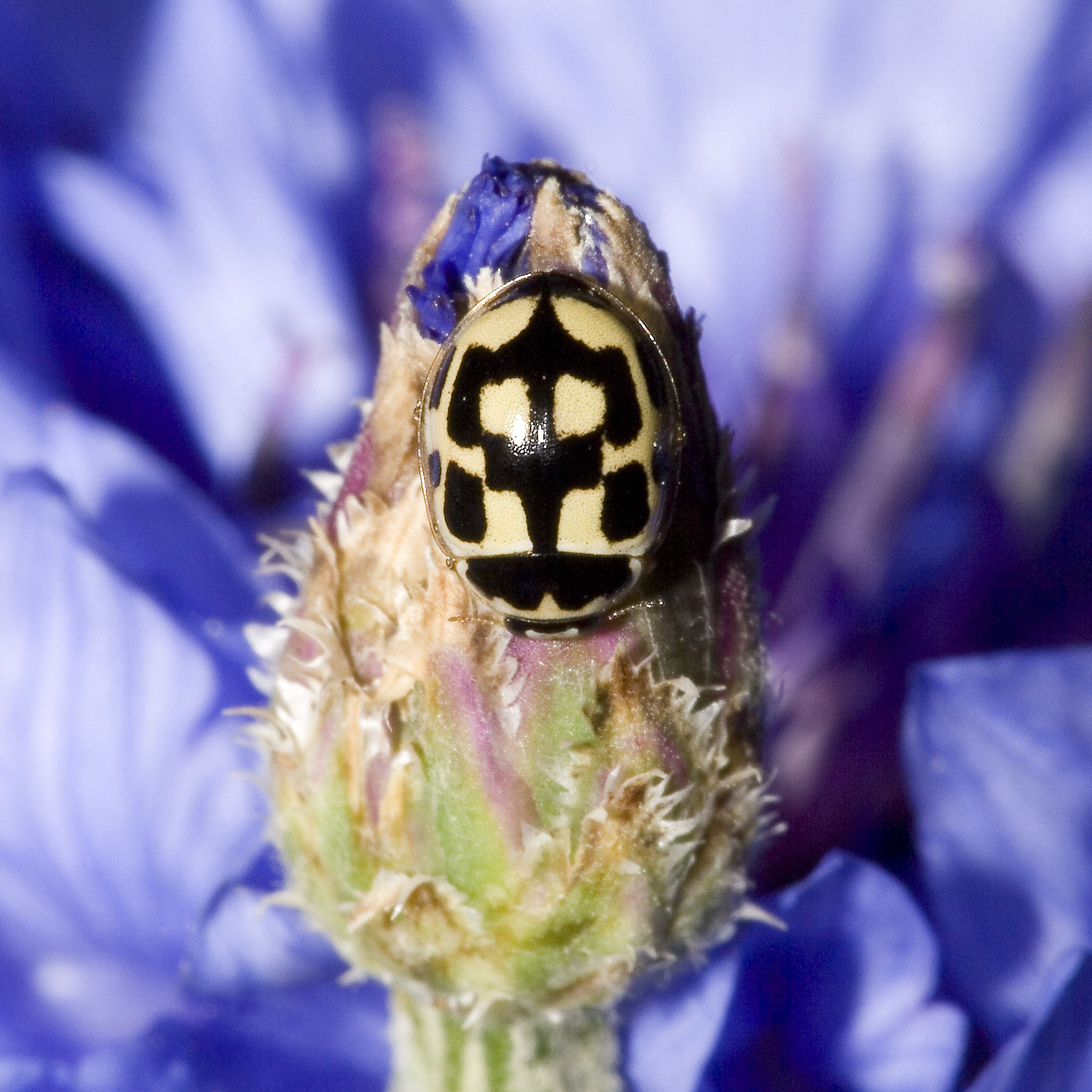 14-spot ladybird, Propylaea quatuordecimpunctata (Linnaeus, 1758), Many thanks to Jürgen Peters from for confirming my determination.